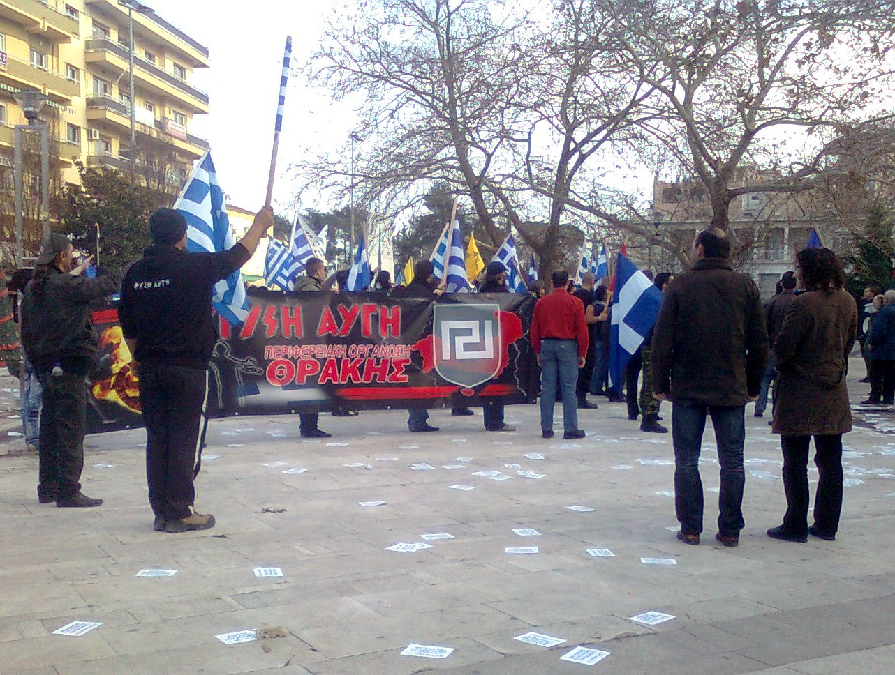 Chrysi Avyi (a Greek Nationalist political organization in Greece) demonstration in Komotini, Greece.